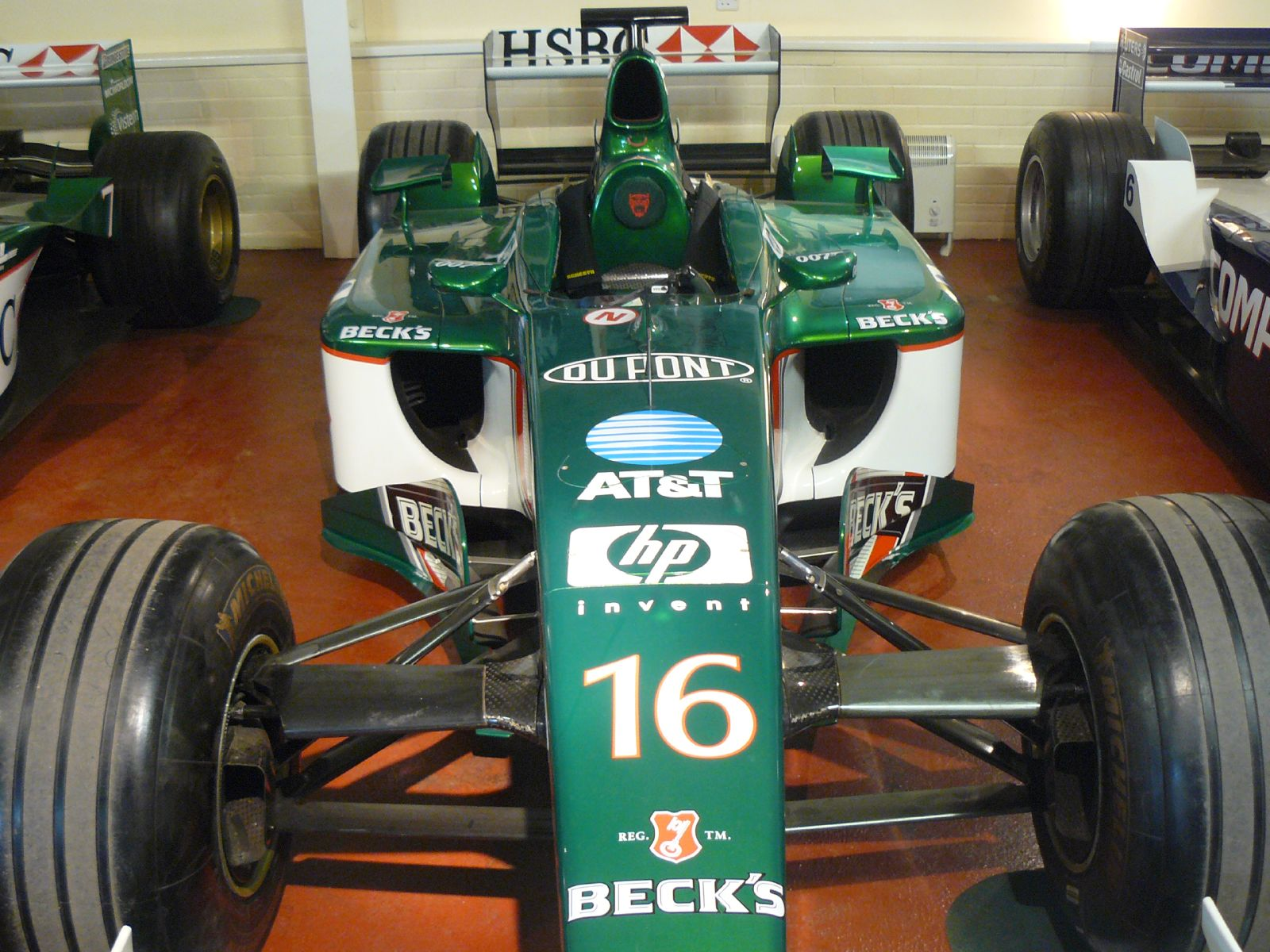 Jaguar R3 which competed in the 2002 season driven by Eddie Irvine. The cars best result was third at Monza, and at the end of the season was given away as a competition prize by Bernie Ecclestones F1 Digital TV channel.